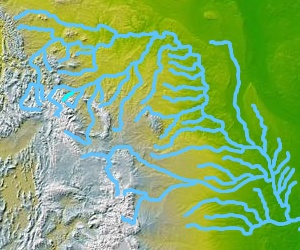 Map of the Stillwater River (upper left, blue-green) — in southern Montana. Tributary of the Yellowstone River, which is a tributary of the Missouri River. Credits ©2004 Matthew Trump